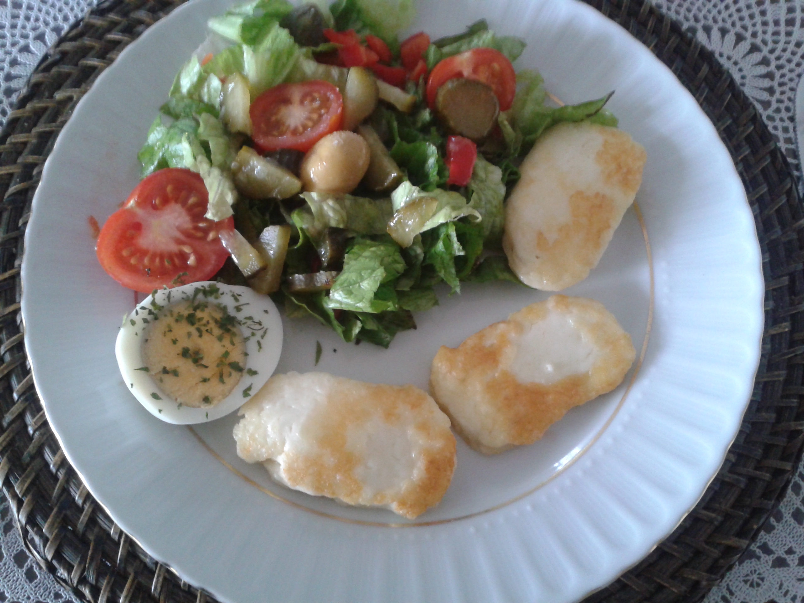 Hellimli salata - Ankara